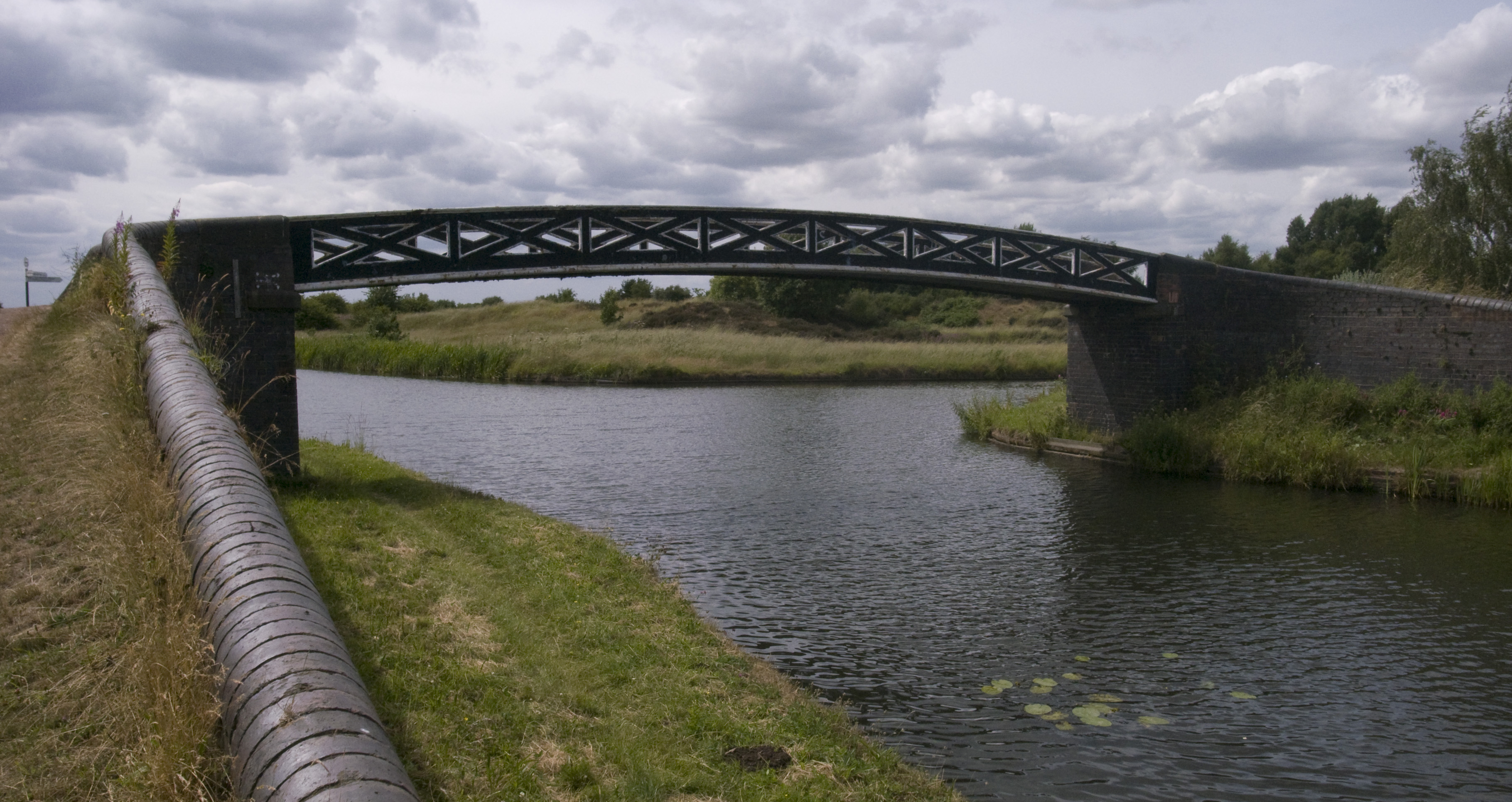 Pelsall Junction on the Wyrley and Essington Canal with the Cannock Extension Canal commencing beyond the bridge to the right.